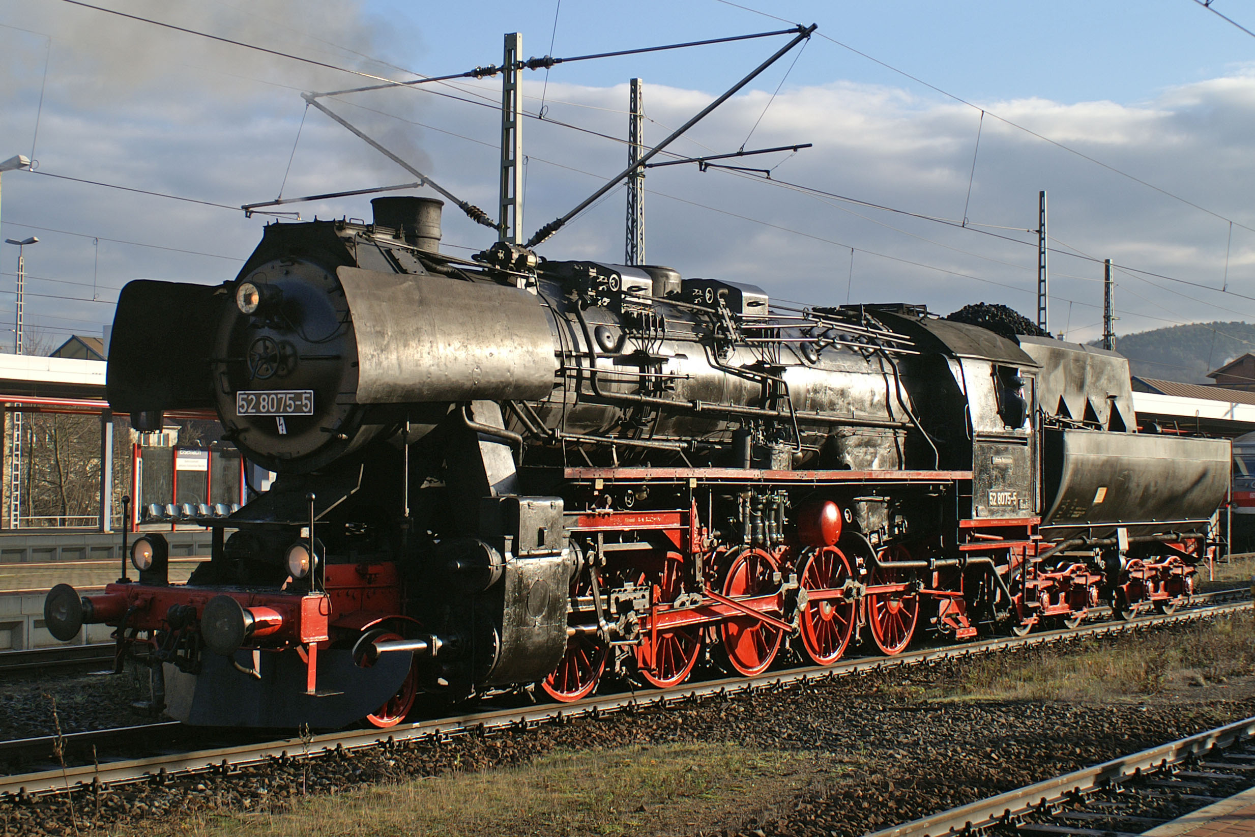 Rekolok DR 52 8075 at Eisenach.